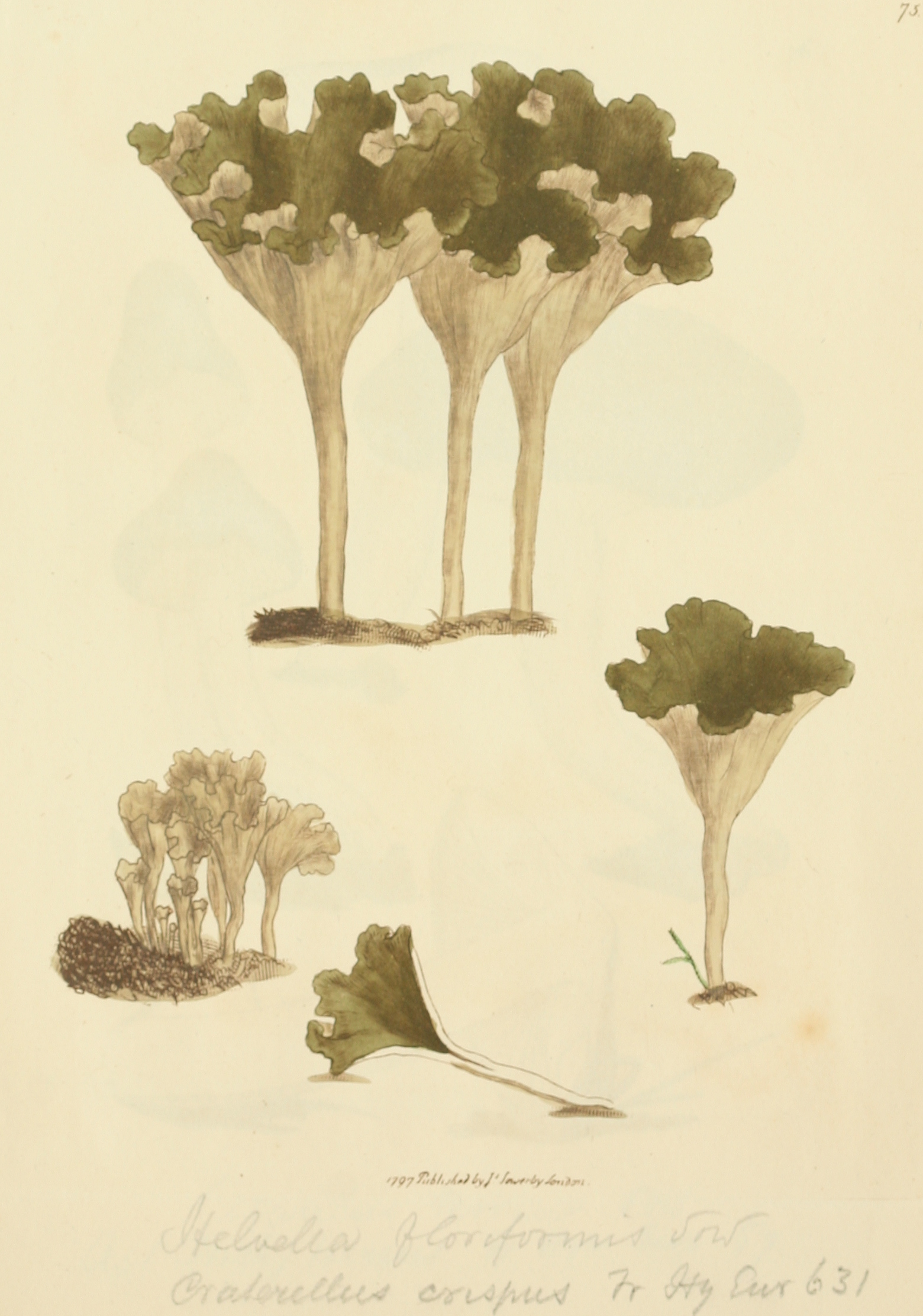 This is a plate from James Sowerby's Coloured Figures of English Fungi or Mushrooms.